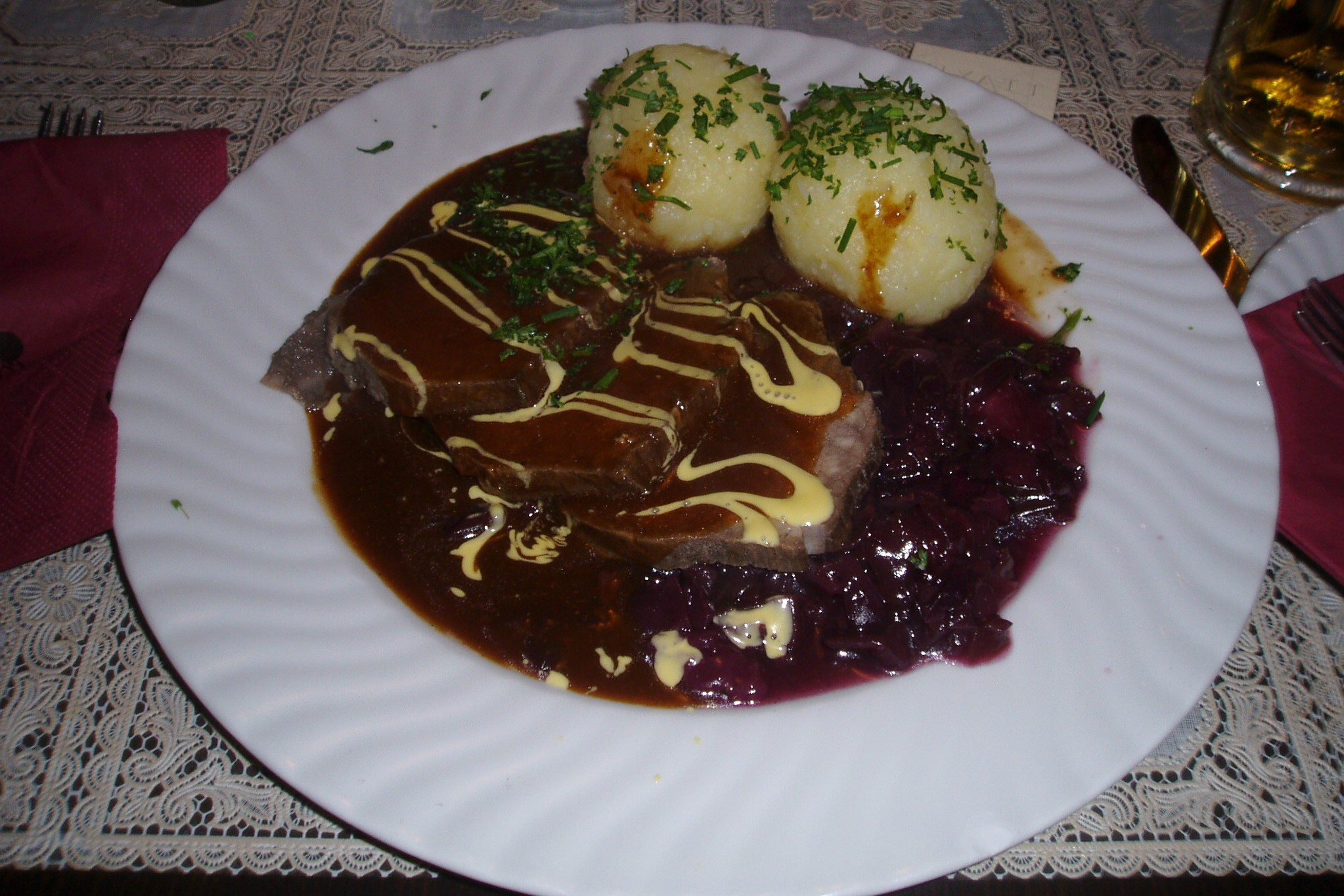 Sauerbraten with potato dumplings